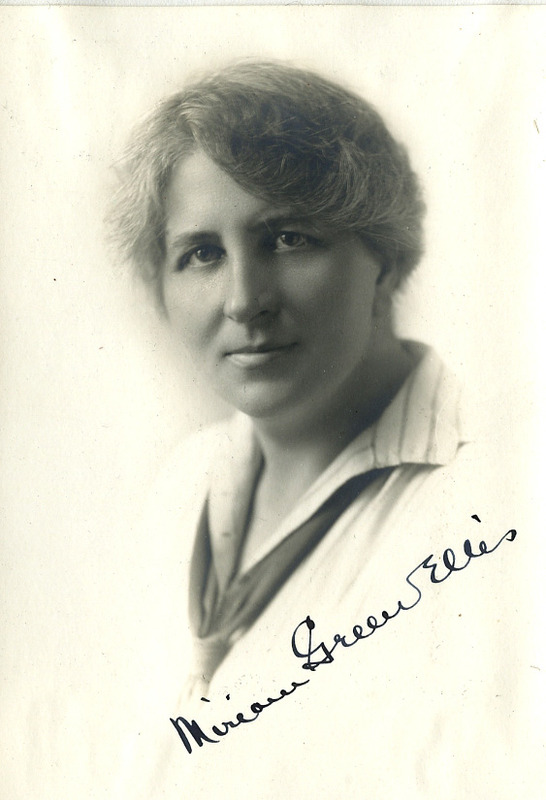 A formal portrait of Miriam Green Ellis, with her signature. This image was included with her contribution in a memory book created by the Edmonton Women's Press Club for a departing member in 1922.